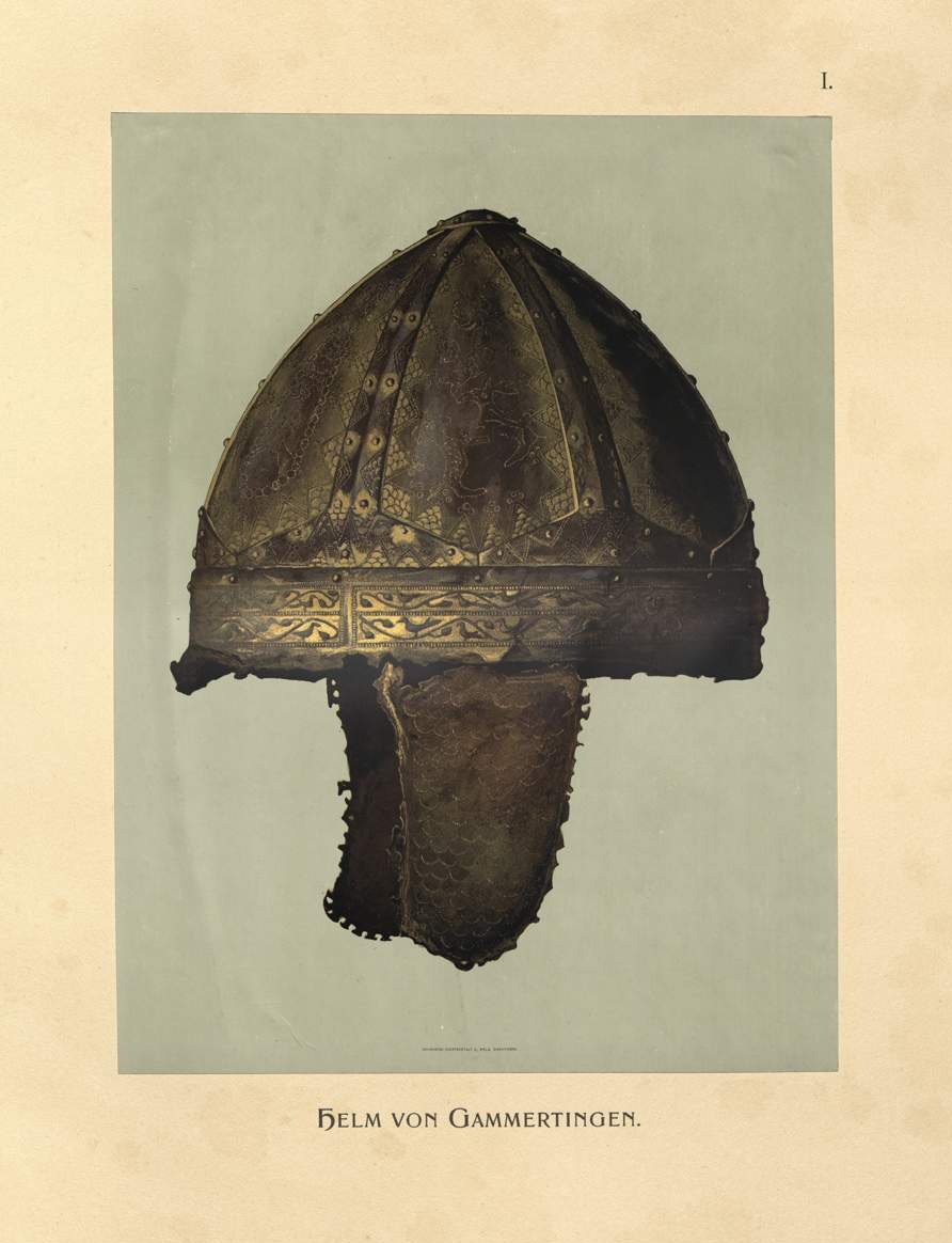 Helmet of Gammertingen